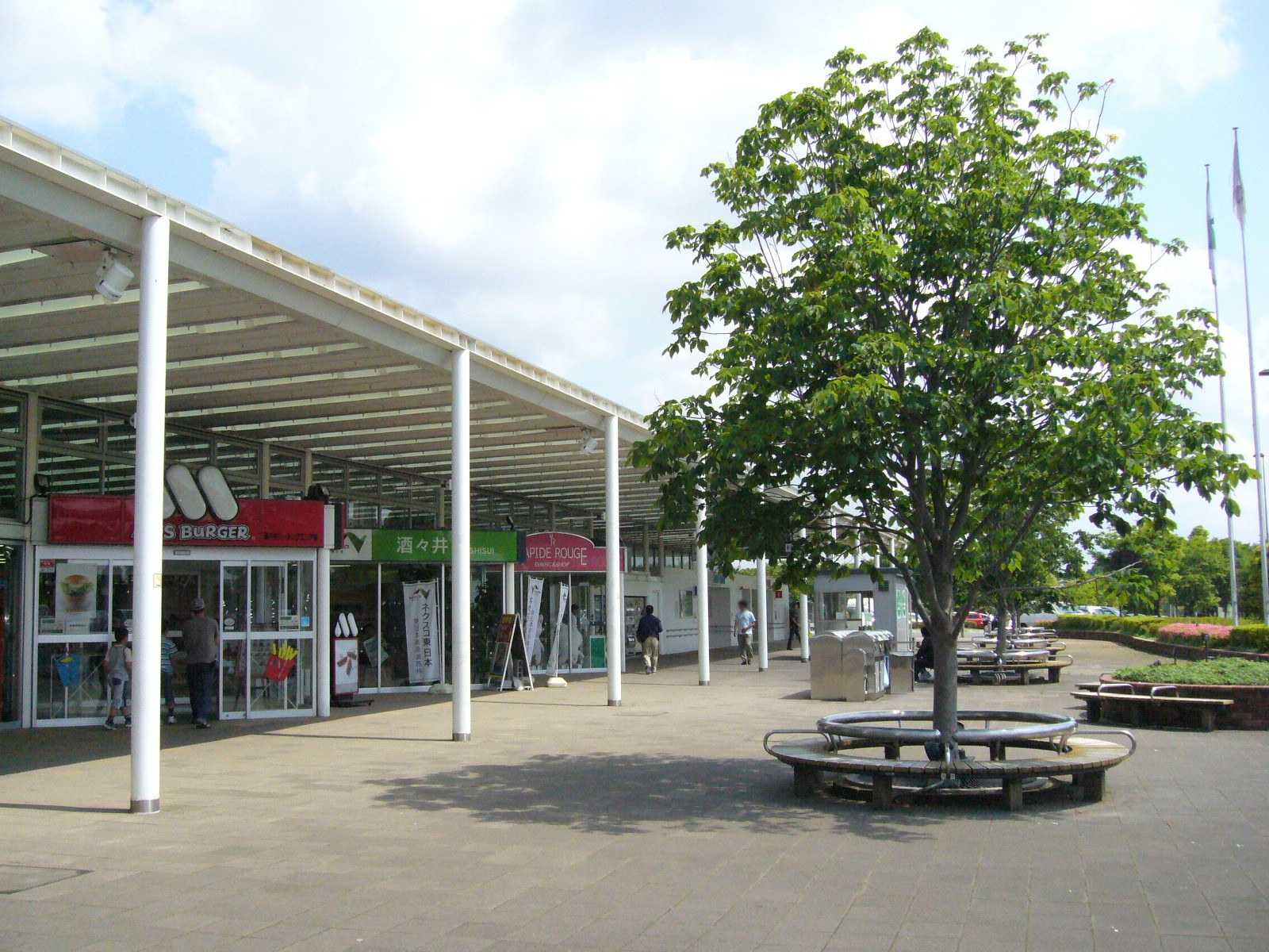 Shisui Parking Area on the Higashi-Kanto Expressway in Japan